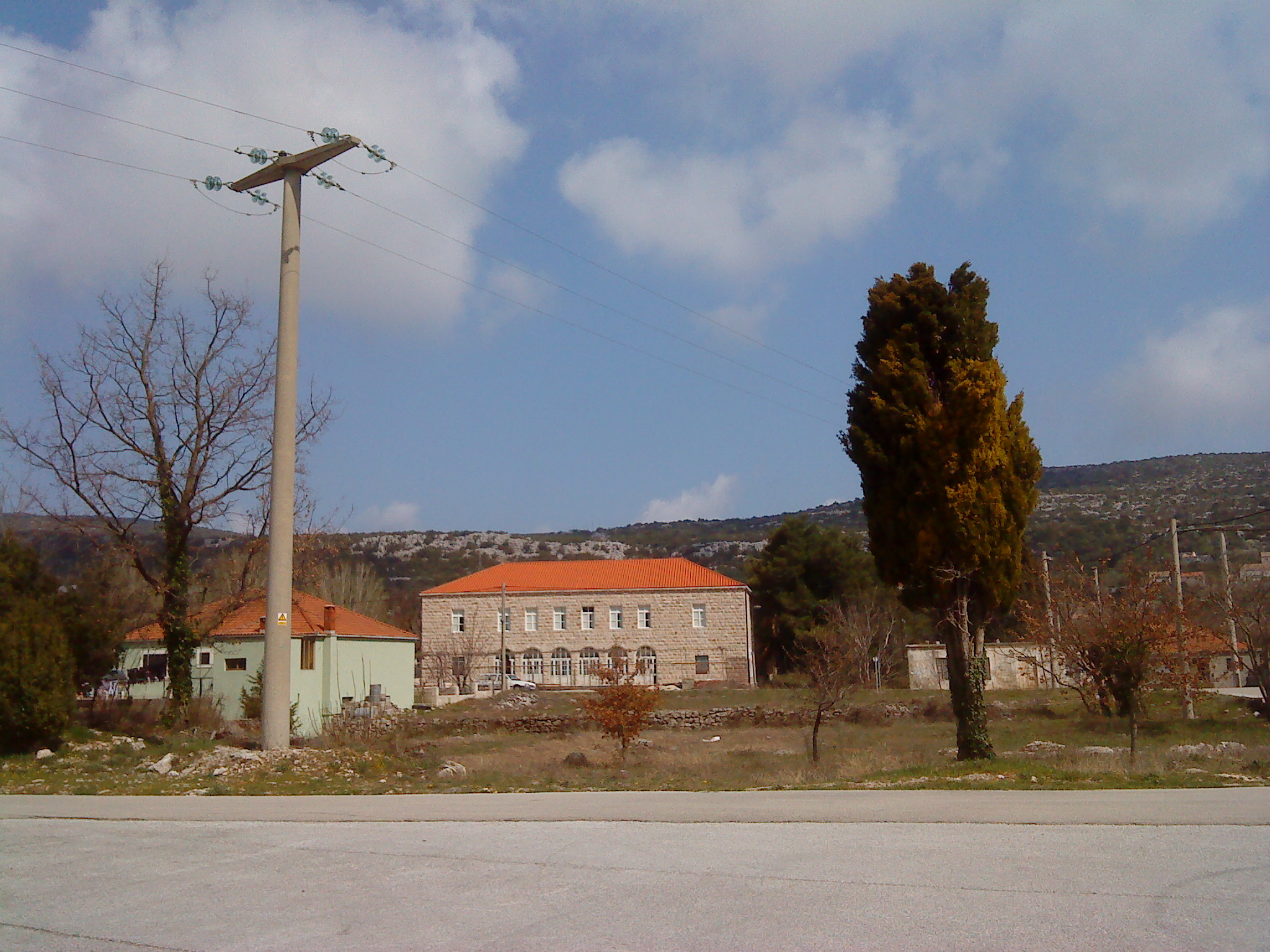 Putnikovići